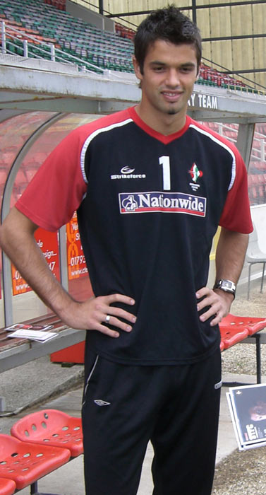 Peter Brezovan in Swindon Town FC warm-up kit pre-match.